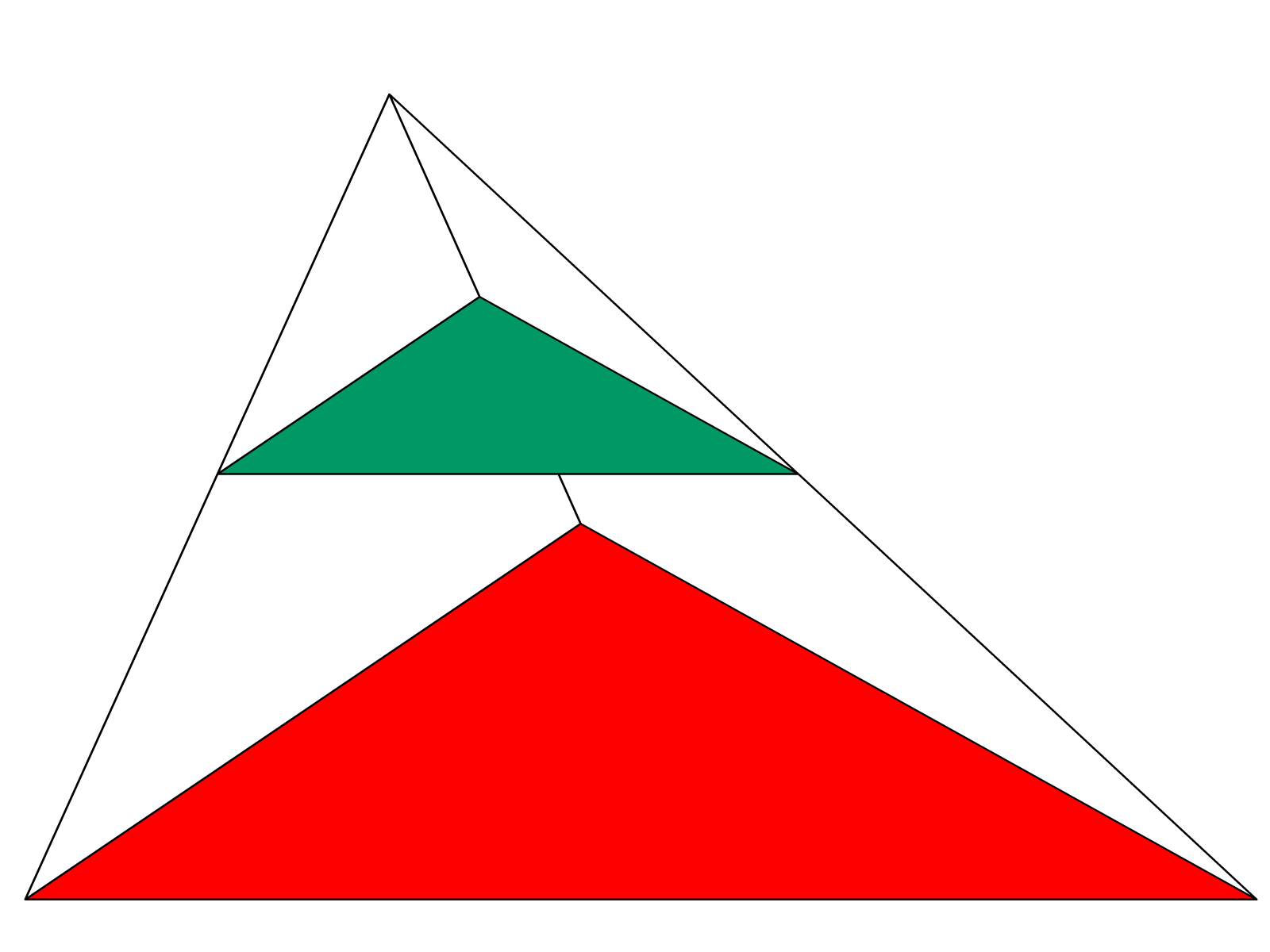 Tetrahedron - cross section